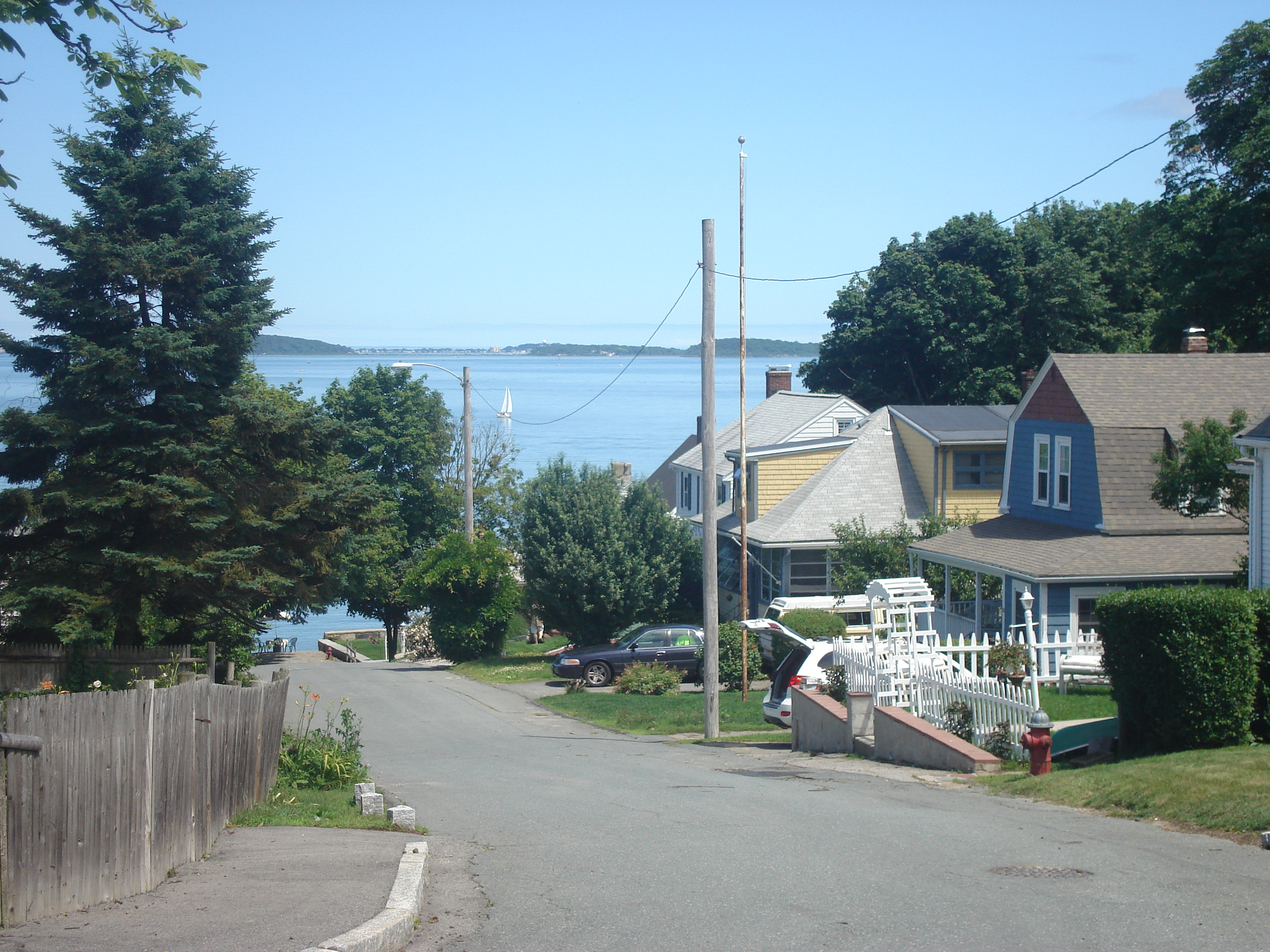 Looking east toward Boston Harbor down a neighborhood street in Squantum, Quincy, Massachusetts.